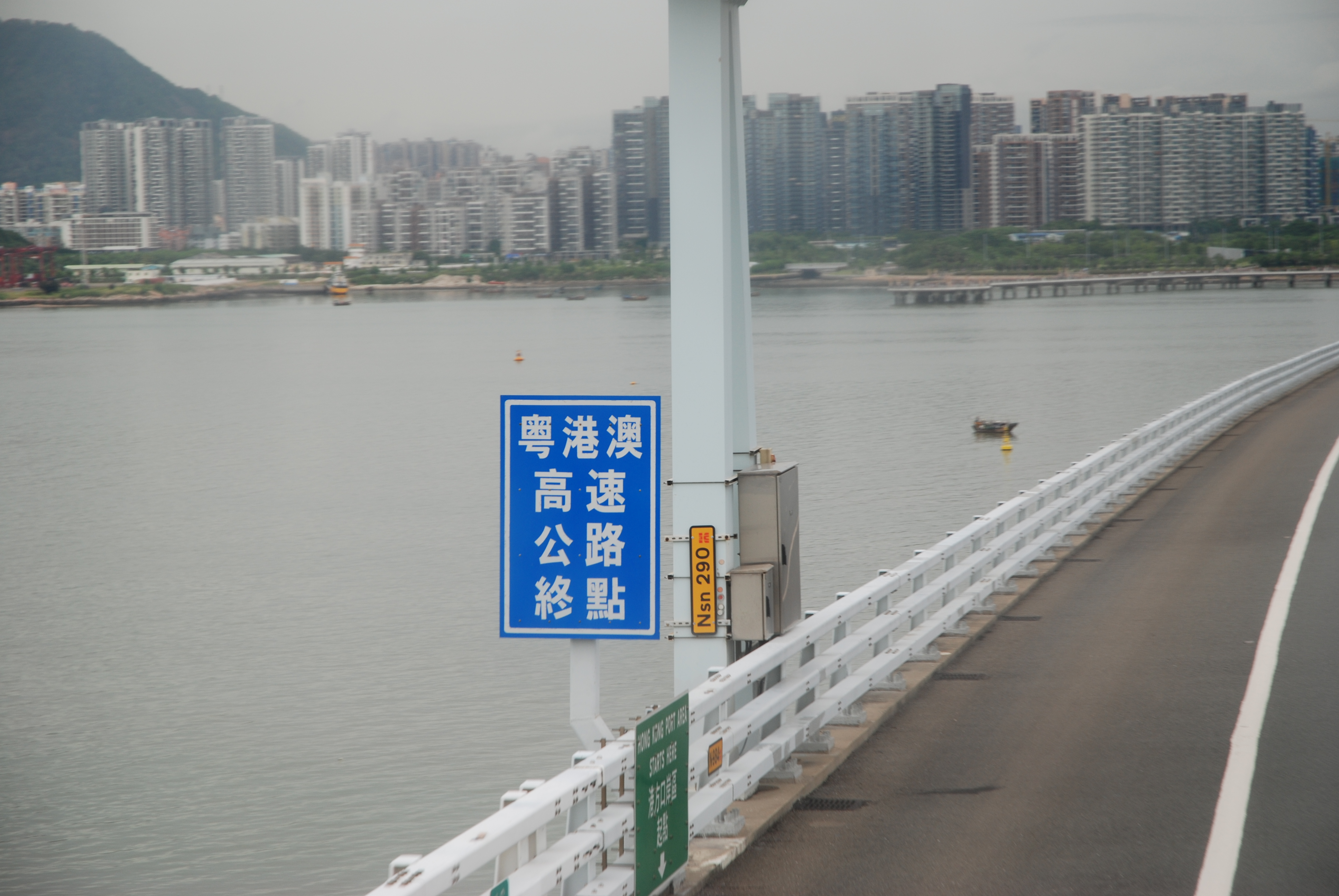 The ‘Guangdong – Hong Kong – Macau Highway End Point’ sign on Shenzhen Bay Bridge, Route 10, Hong Kong